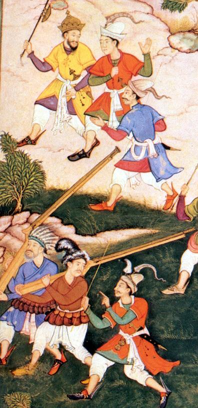 These large cumbersome guns had a short range and an erratic aim, which is why soldiers preferred archery to musketry till a late period.